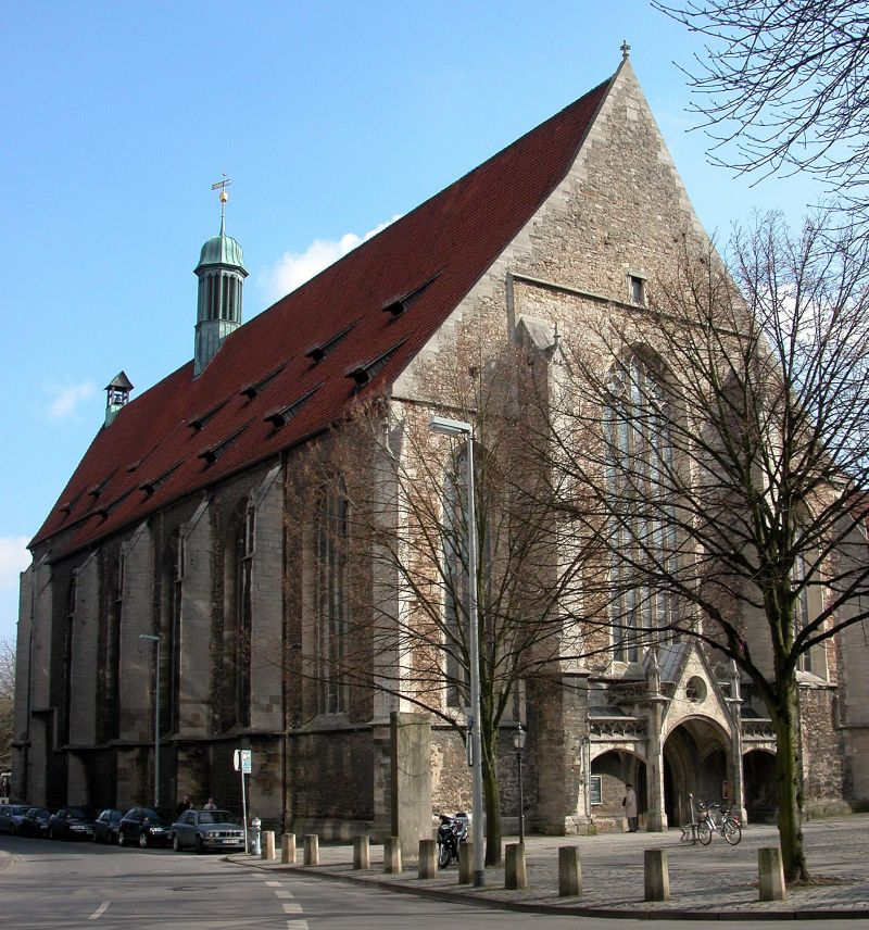 Brunswick, Germany: St. Ulrici’s as seen from the west.